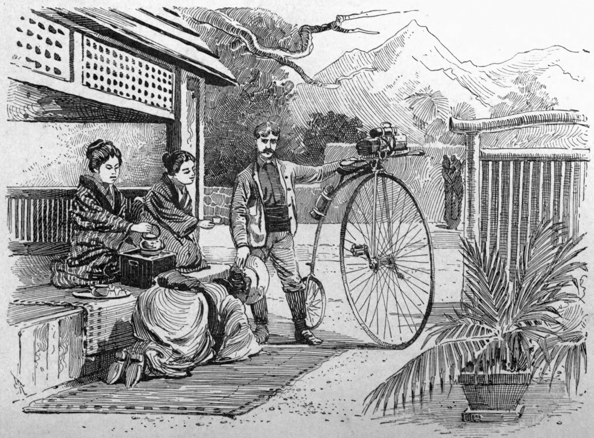 A drawn depiction of Thomas Stevens in Japan from his book (volume 2) on his around the world adventure.